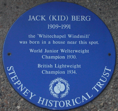 Description Blue plaque in Cable Street, London, commemorating Jack (Kid) Berg. The plaque is mounted on the stairway of Noble Court, opposite Christian Street. Copyright Photographer Richard Allen Technical information Digital photograph with fill-in flash, taken on 19 August 2005, in rainy weather. Post-production modifications, in Adobe Photoshop 7.0: cropped; converted to png-8 format; re-sized Resolution: 72 pixels/inch Size: 500x469 pixels; 135.7K Colors: 128; 88% dither